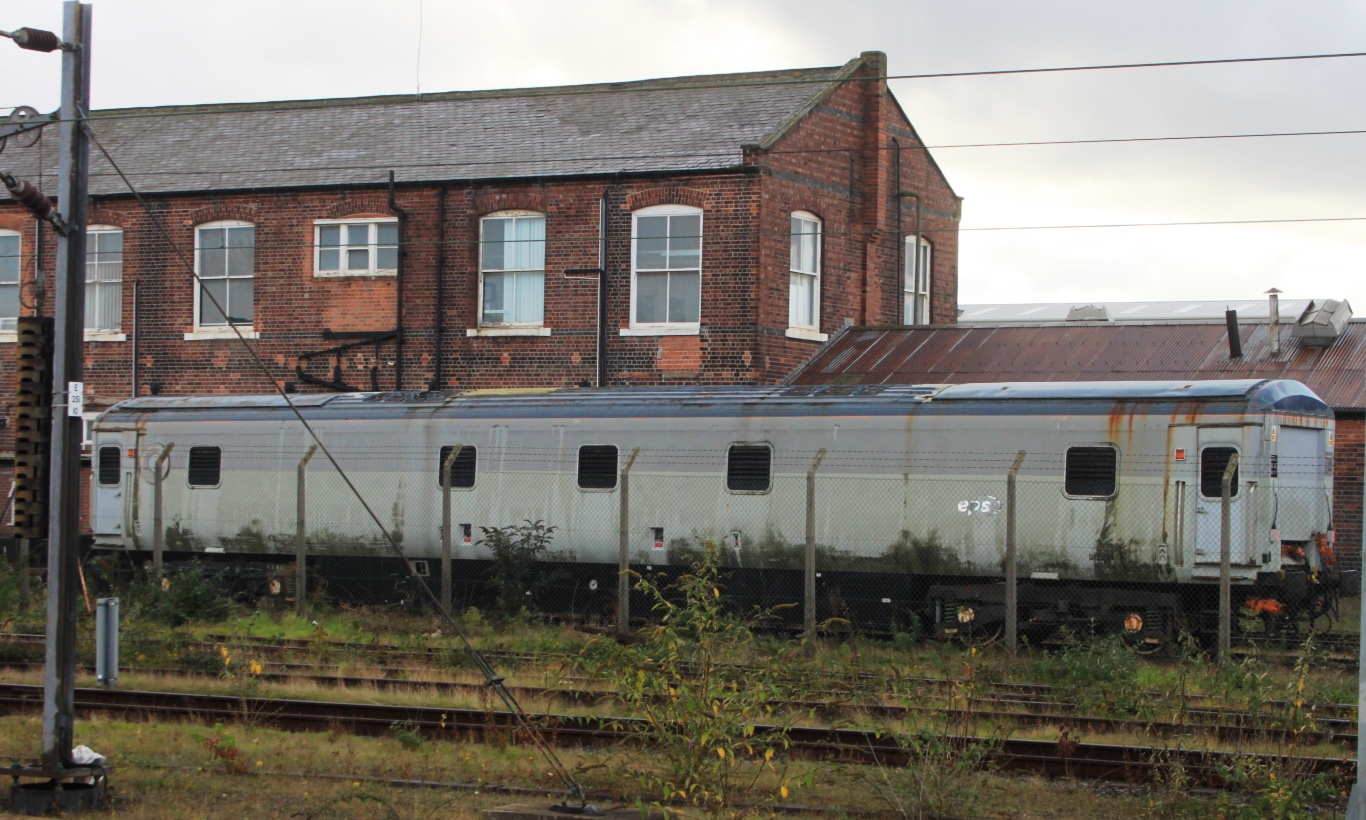 Disused Mark 3 generator van 96324 at Doncaster Works in 2016. This was one of a small number of sleeping coaches converted as generators for European Passenger Services (the predecessor of Eurostar) to work with their sleeping coaches through the Channel Tunnel, although this service was never operated as the demand level was insufficient.